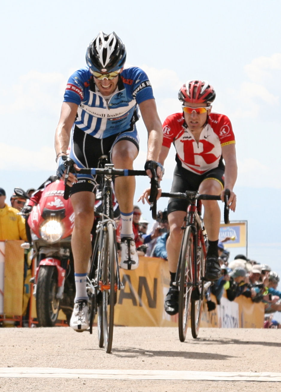 Rory Sutherland and Levi Leipheimer You're free to use this photo, but you MUST attribute to Richard Masoner / Cyclelicious and (if an online publication) link to I biked 30 miles for this shot, so I'd like something for my effort. Thank you.